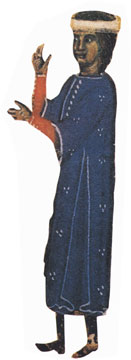 Raimon Jordan miniature from BnF MS 12473 folio 104.